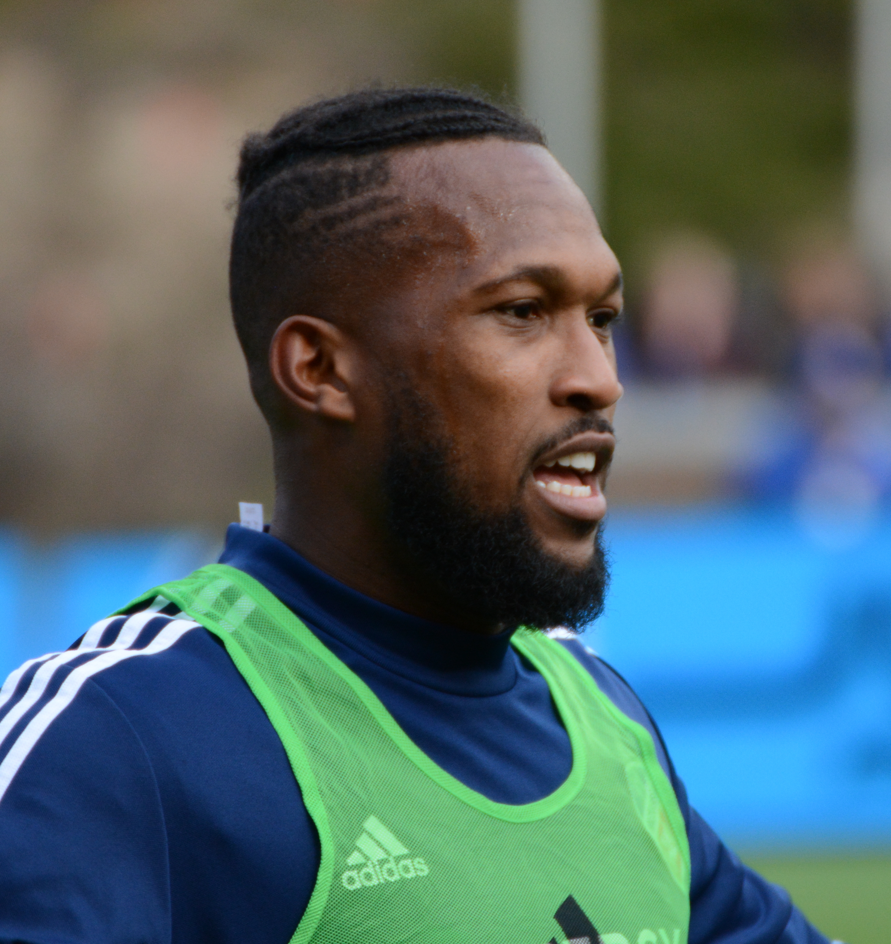 Taken during FC Cincinnati's Major League Soccer regular season home opener match against Portland Timbers at Nippert Stadium in Cincinnati, USA on March 17, 2019.